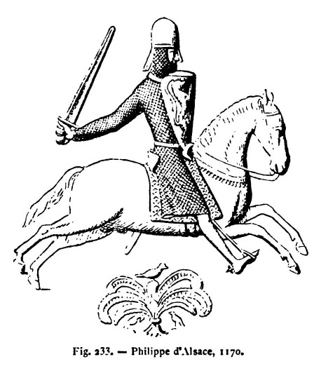 Philip of Alsace - 1170